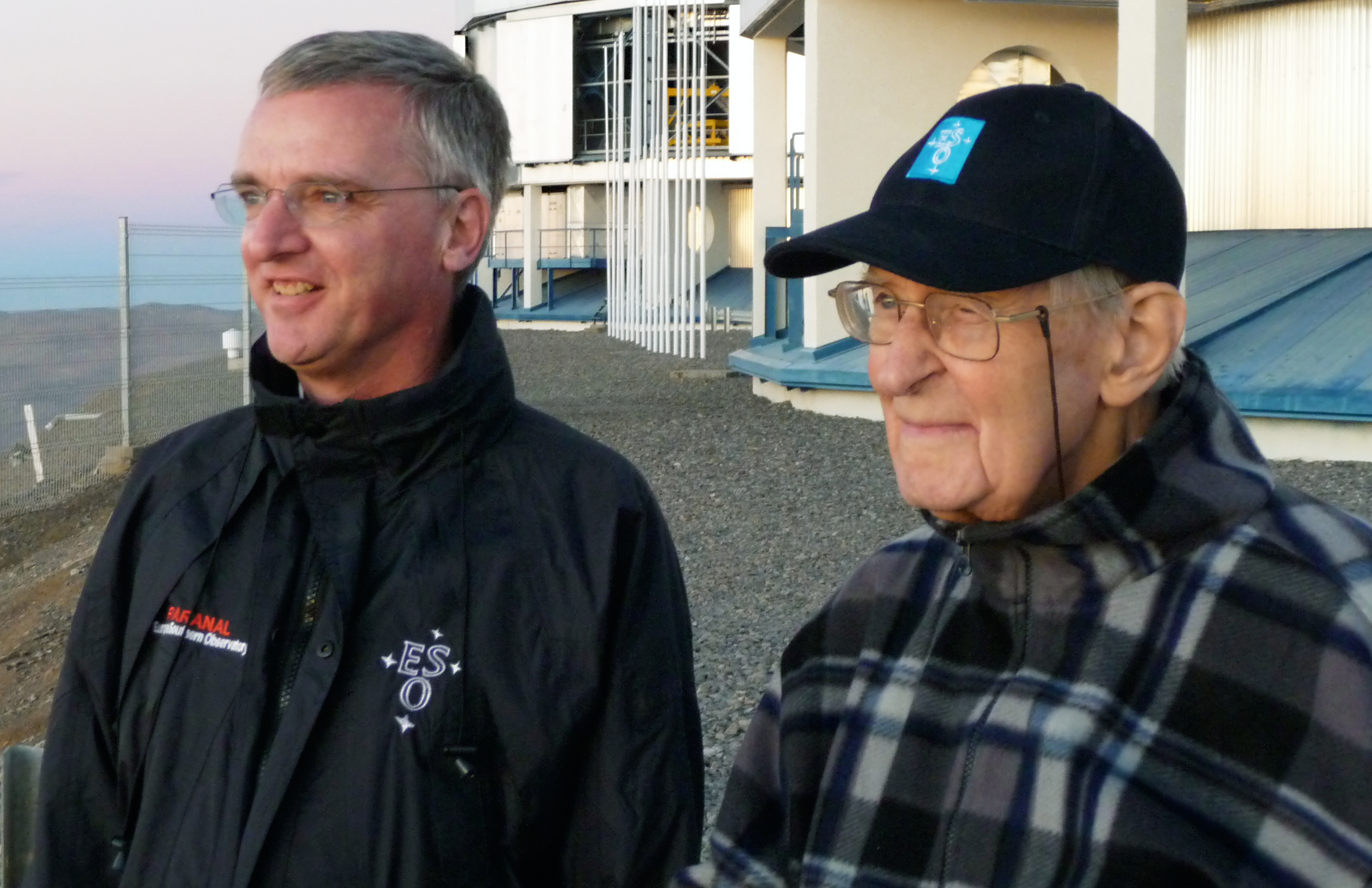 Two ESO Directors General at Paranal Prof. Adriaan Blaauw (1914–2010), the second ESO Director General (from 1970–1974), visited some of ESO’s sites in Chile in February 2010, at the age of 95. In this picture, Prof. Blaauw watches the sunset from the VLT platform together with current ESO Director General, Prof. Tim de Zeeuw.